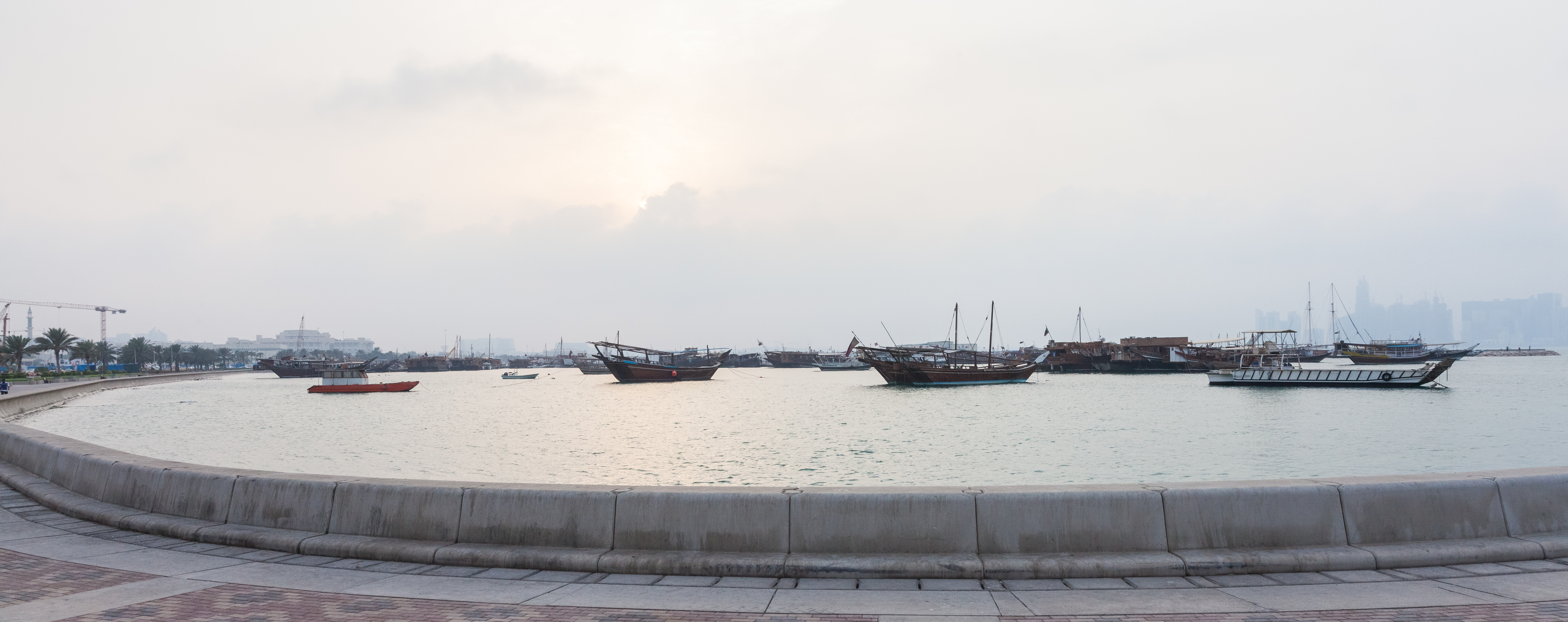 Doha Bay, Qatar